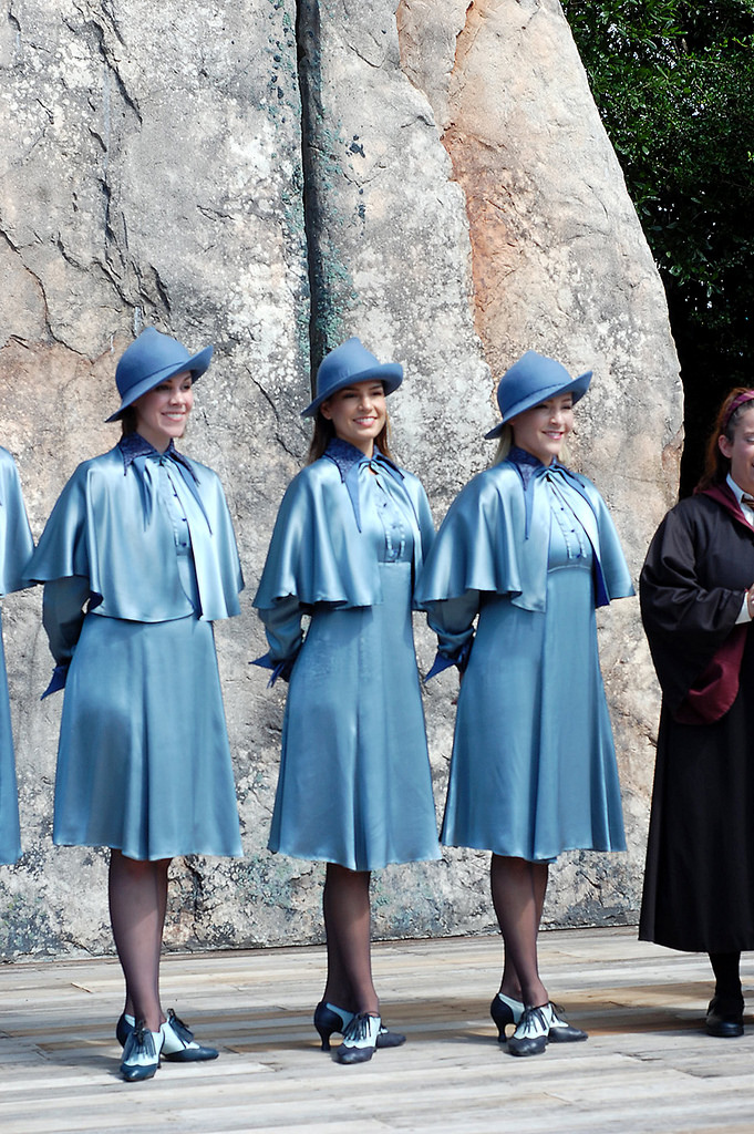 Photo taken in Universal Studios Orlando of the Beauxbatons Students Academy